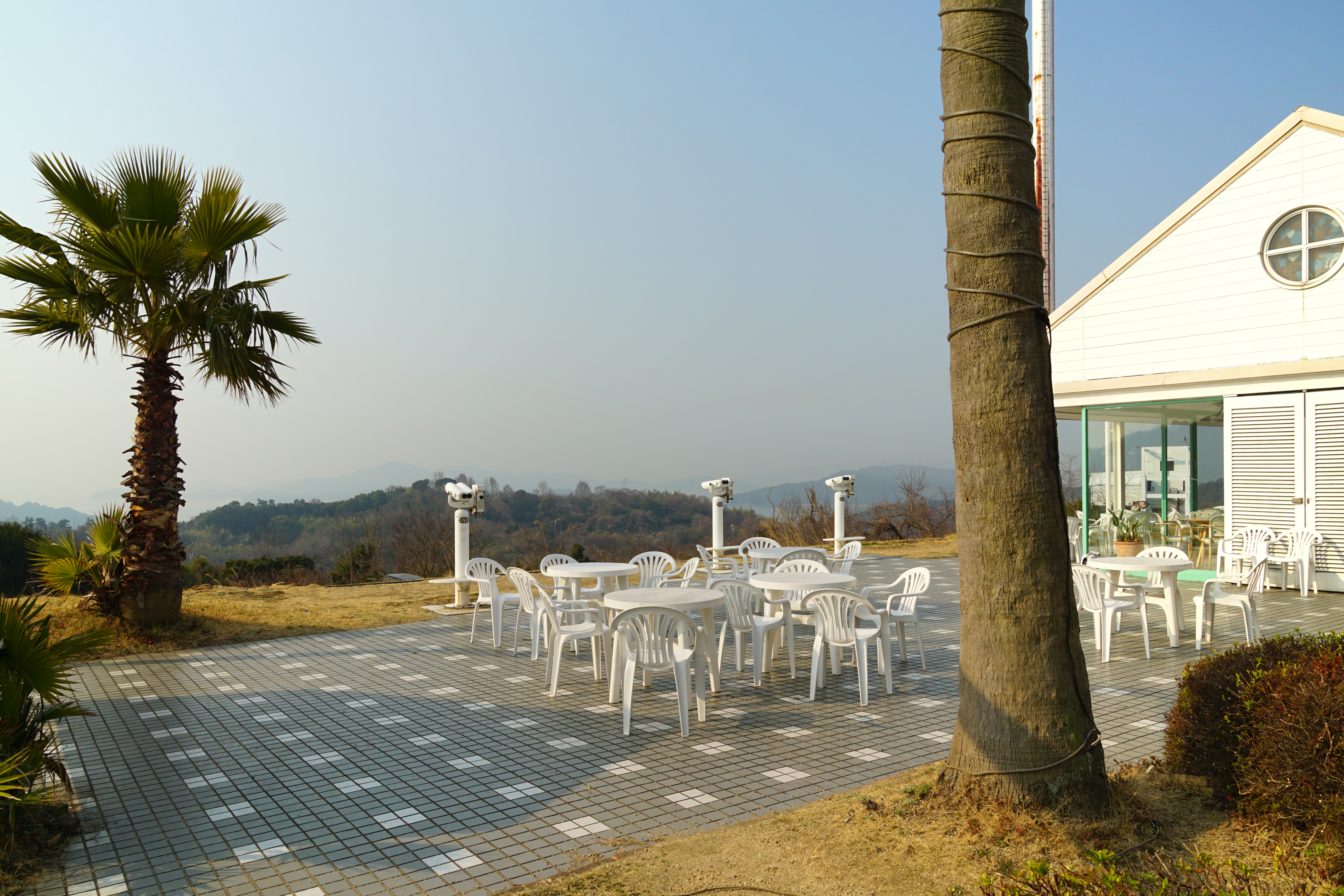 Brazilian_Park_Washuzan_Highland in Kurashiki, Okayama prefecture, Japan